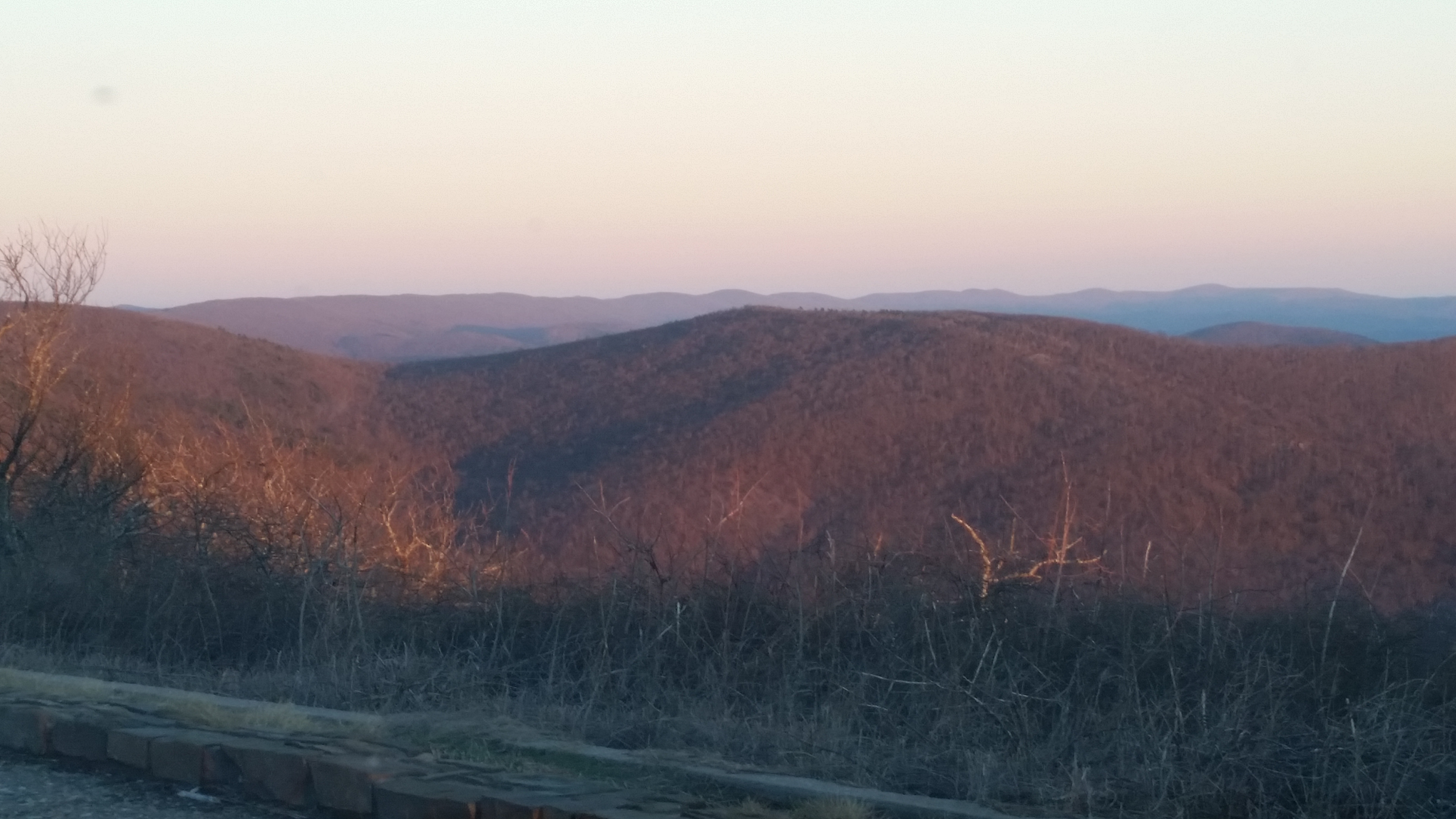 View of Wilton Mountain taken from Kiamichi Vista.